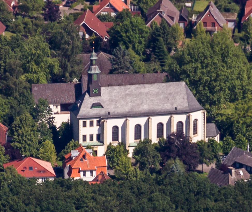 St. George's Church, Havixbeck, North Rhine-Westphalia, Germany